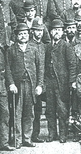 Crop of original group photograph taken of H Division at Leman Street police station in London c.1886.